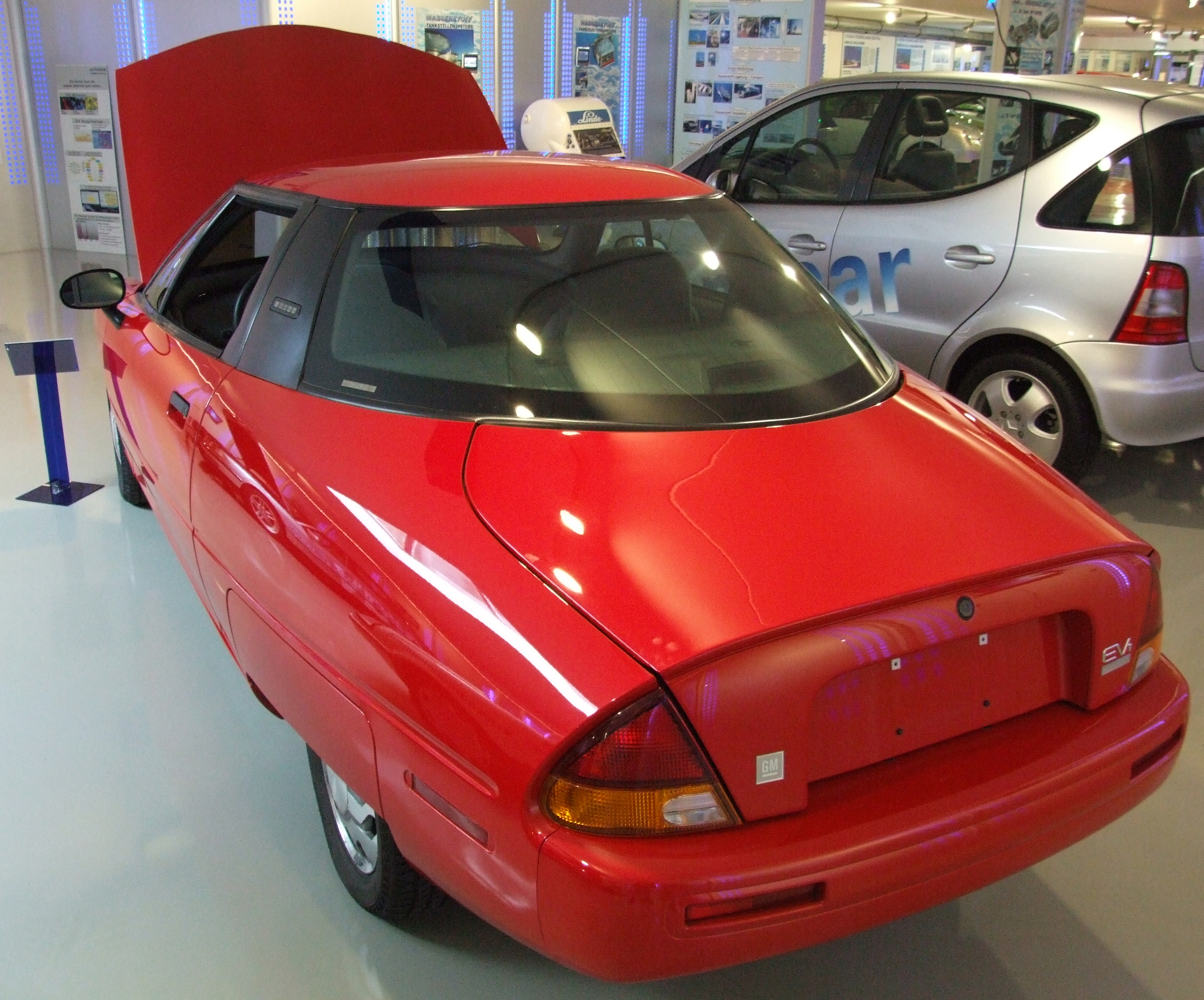 General Motors EV1, picture taken at Museum Autovision, Altlußheim, Germany, one of three existing EV1